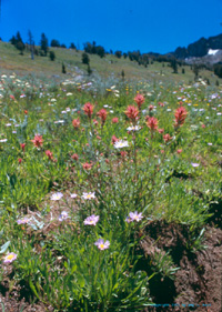 Wildflowers in Mokelumne Wilderness, California, United States